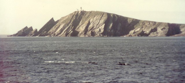 Sumburgh Head. An unusual view of Sumburgh Head and lighthouse, taken from the sea to the East.